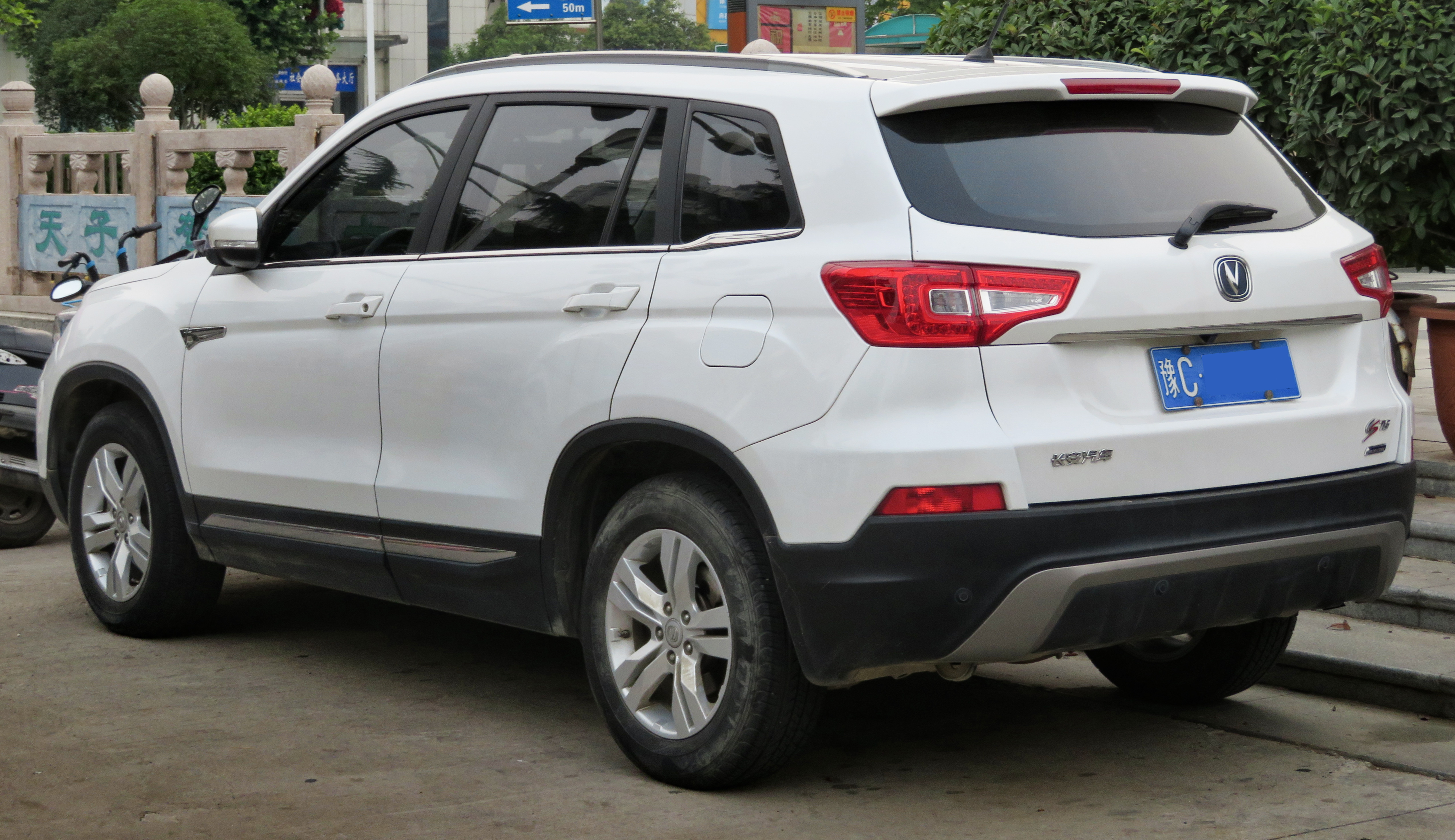 A 2017 Chang'an CS75 photographed in Xigong District, Luoyang, Henan province, China